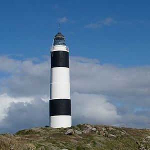 Crop of another Wikimedia Commons file: Dog Island Lighthouse